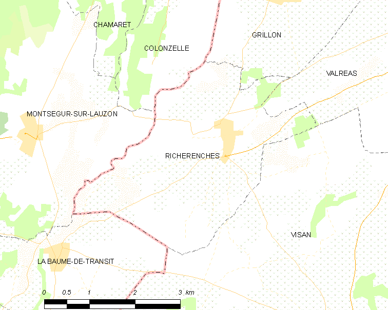 Map of French municipality Richerenches